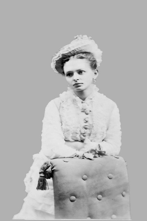 Alice Abadam (2 January 1856 – 1940) was a Welsh suffragette and public speaker and here as a bridesmaid in guess 1870. Via Margaret Vaughan